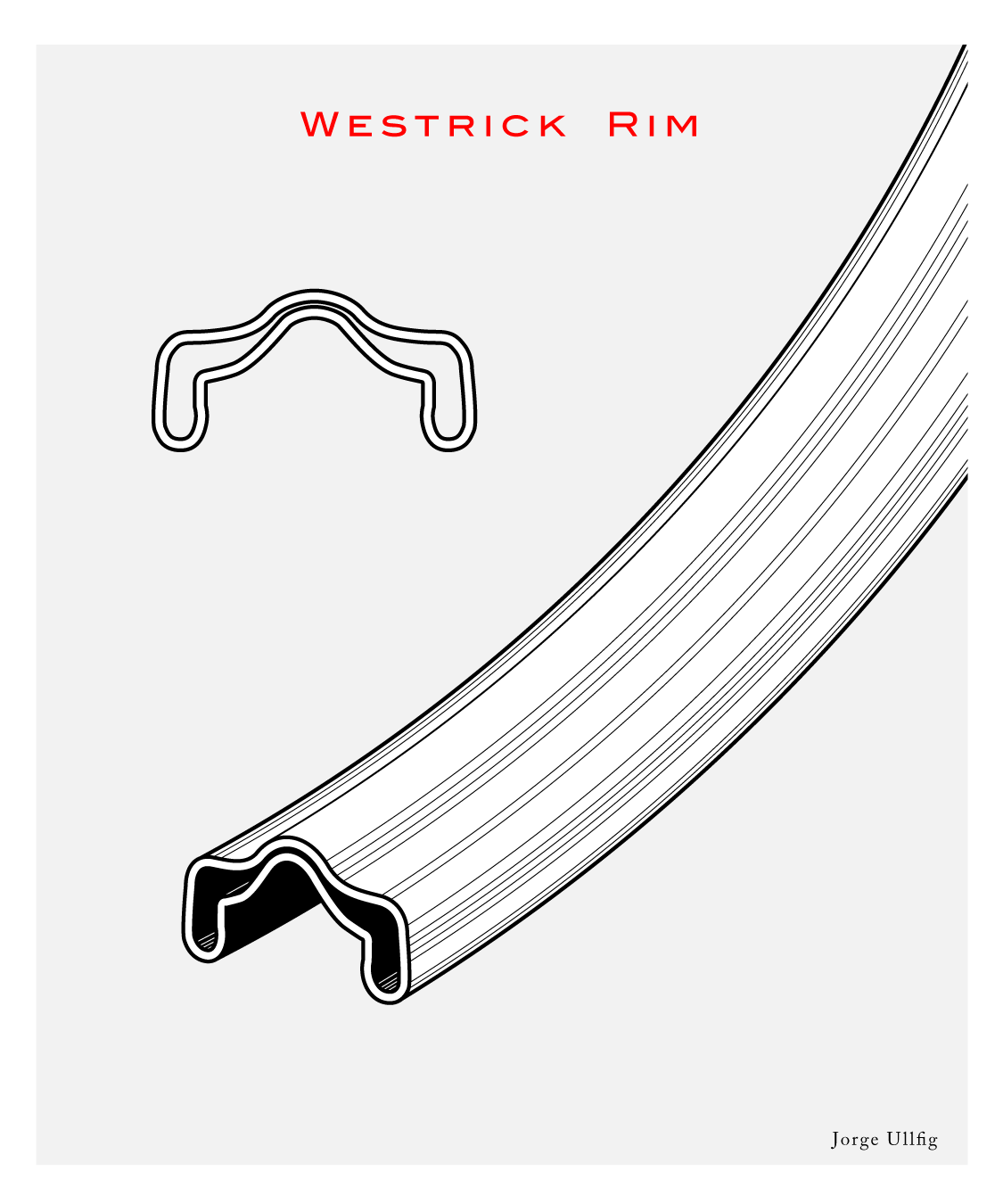 Cutaway diagrams created in illustrator and photoshop from public domain data information obtained from several internet sources and printed Atlases.